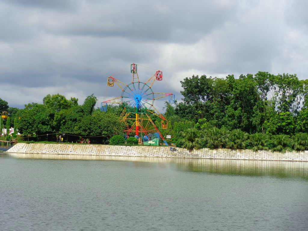 place shopnopuri, dinajpur.